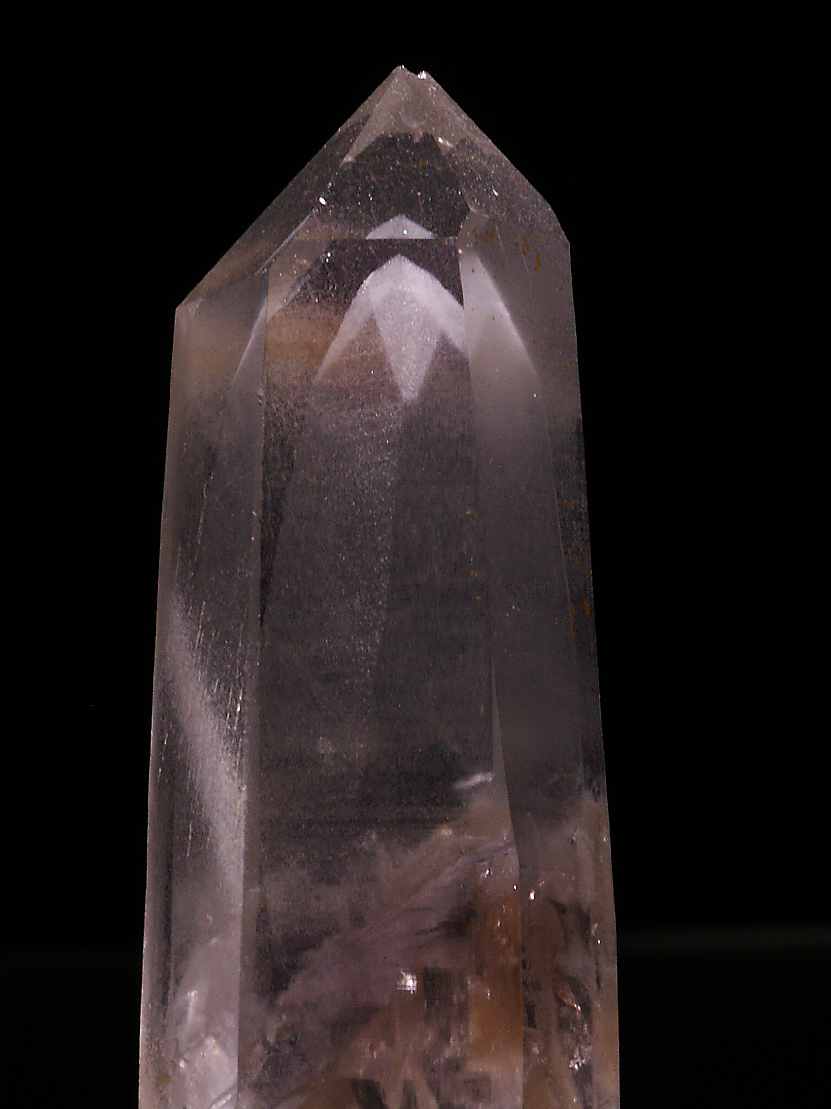 Ghost quartz - Minas Gerais - Brasil (7,8x2,2cm)